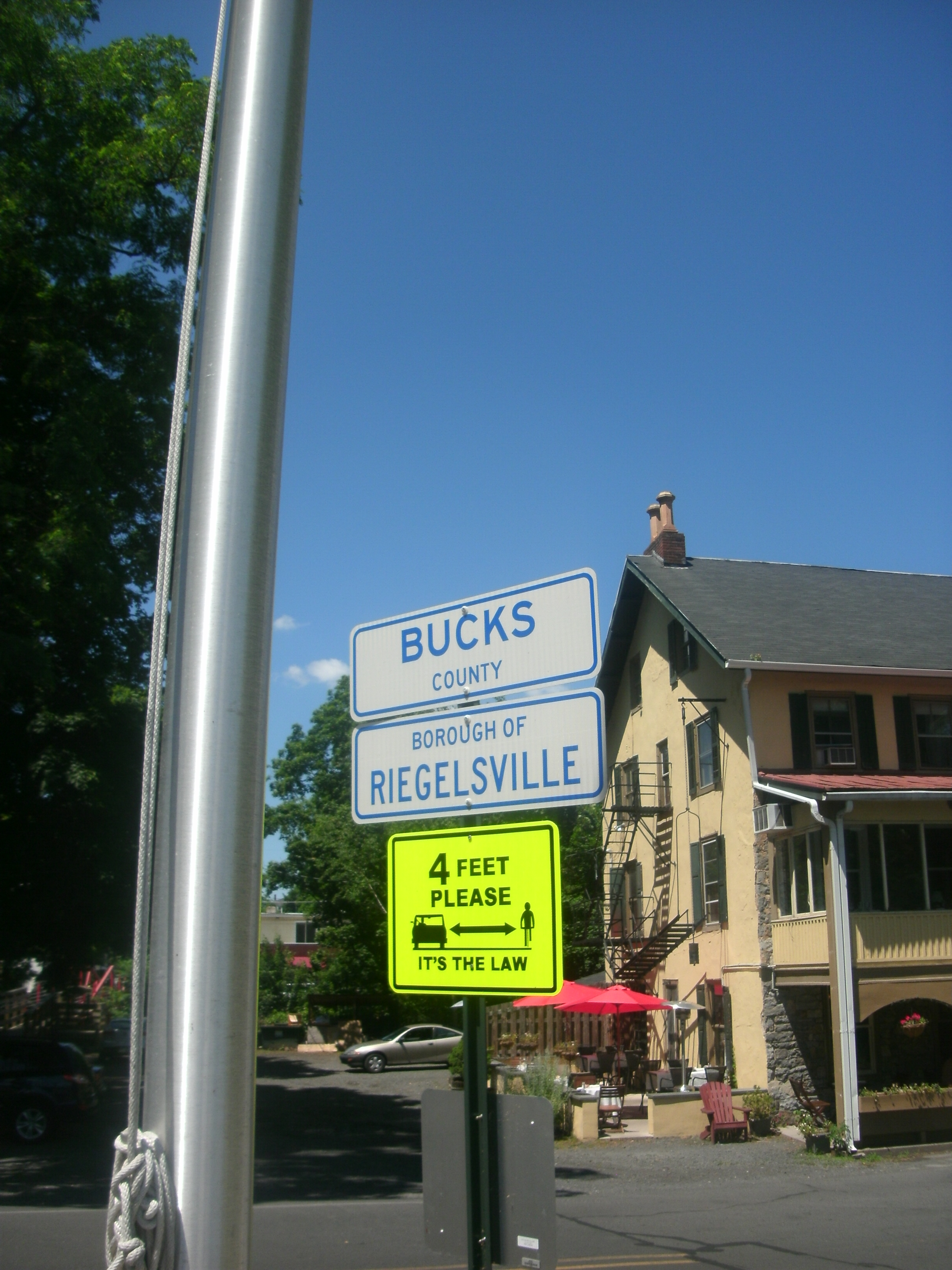 Signage on the approach to the Riegelsville Bridge signaling the entrance to Riegelsville, Pennsylvania and Bucks County.